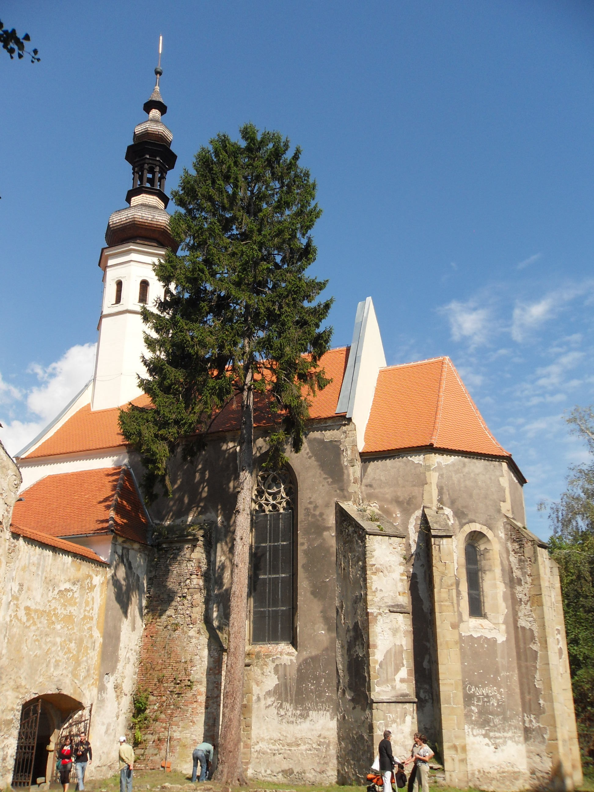 Chapel in Oslavany Chateau, Brno-venkov District, Czech Republic